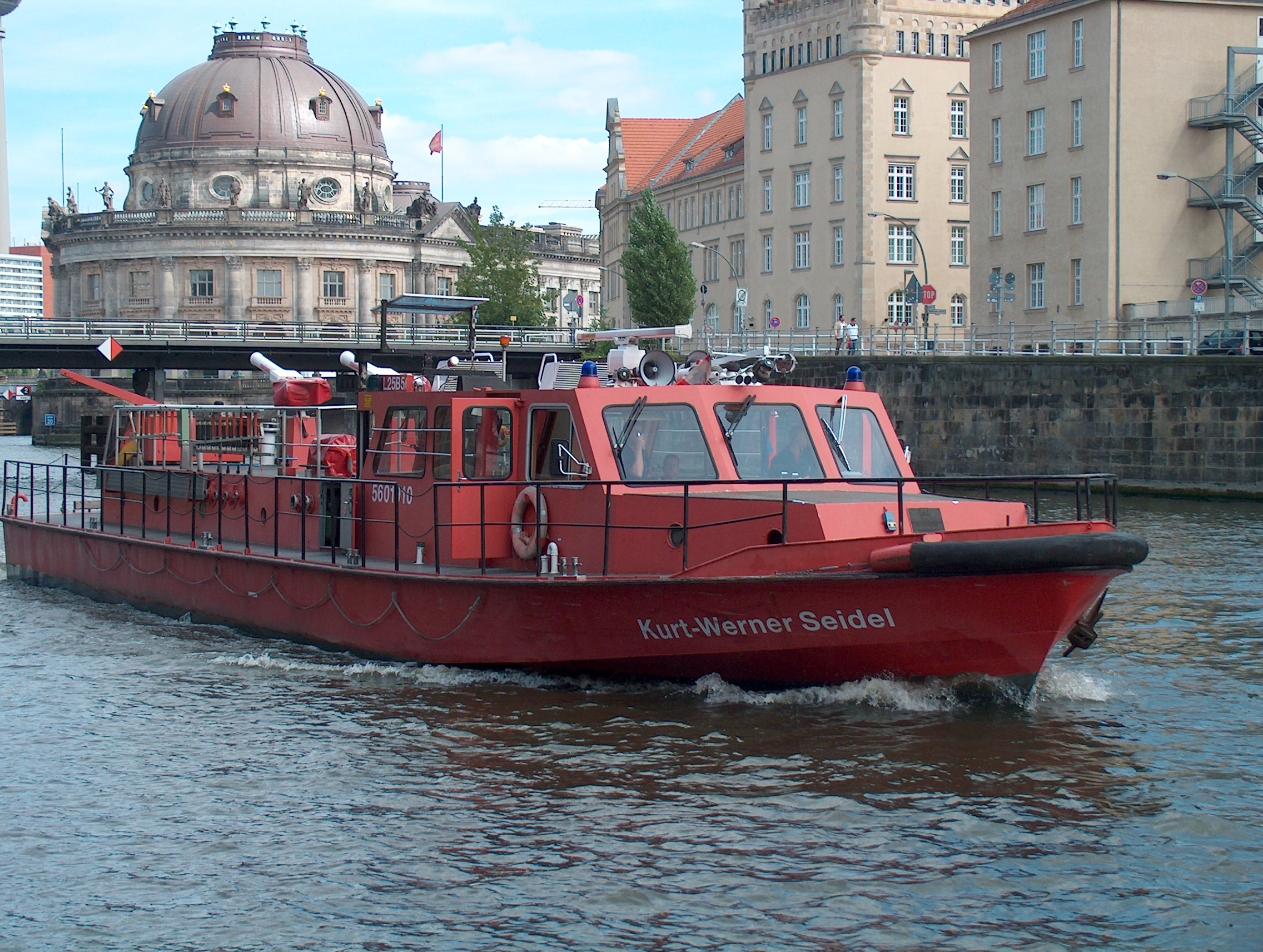 Holiday snapshot of a Berlin firefighting boat. Taken in 2005 on a my boat while mooring near Friedrichsstraße Bridge. Technical Details about this vessel here : This vessel currently (2011) lies in the Dutch town of Heeg which is located in de Northern province of Friesland.